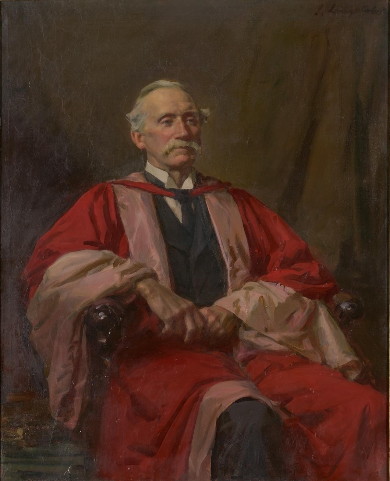 Dr Alexander Leeper by John Longstaff (1861-1941) - Winner of 1928 Archibald Prize.